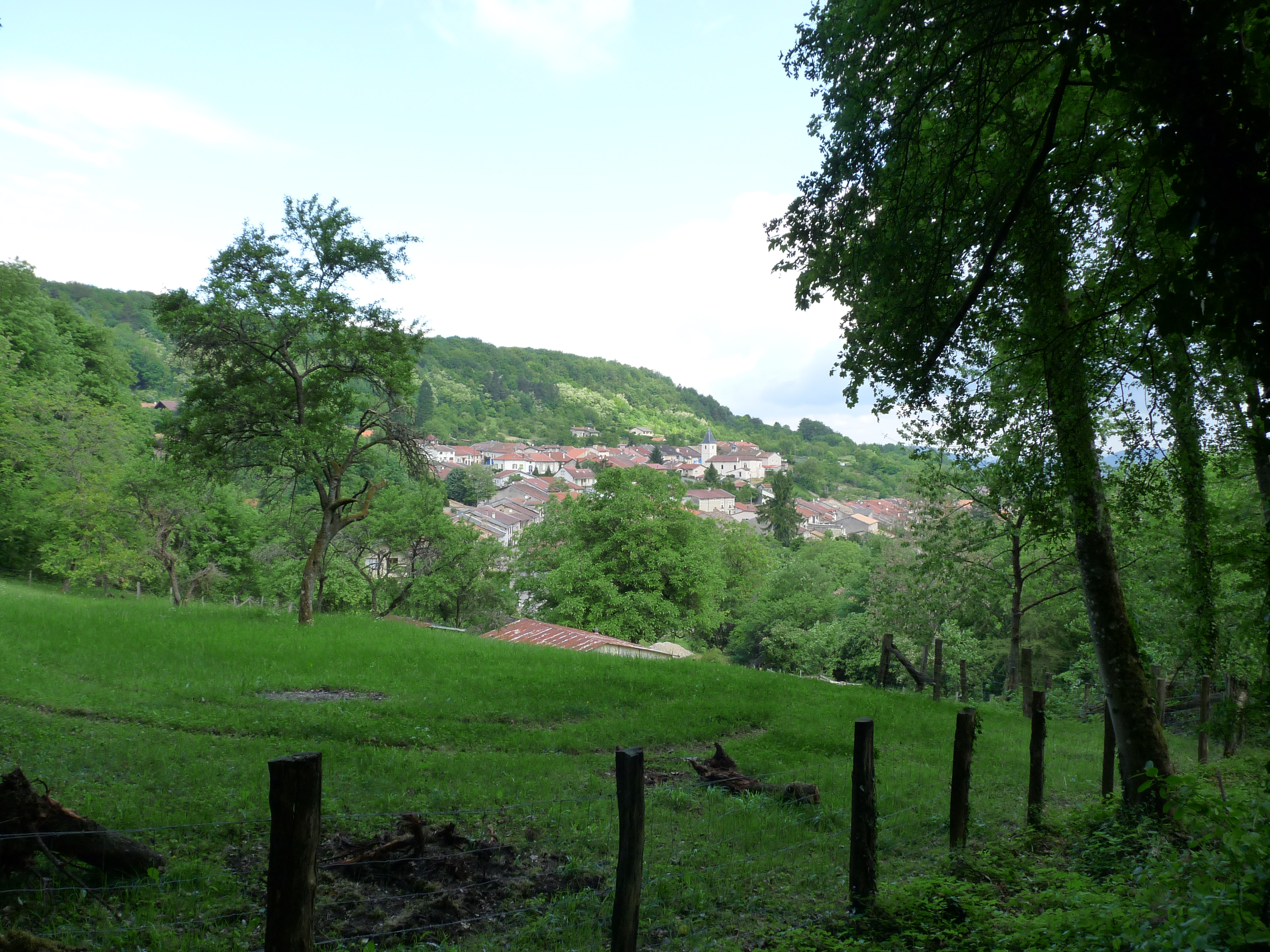 The village of Charmes-la-Cote, in France.